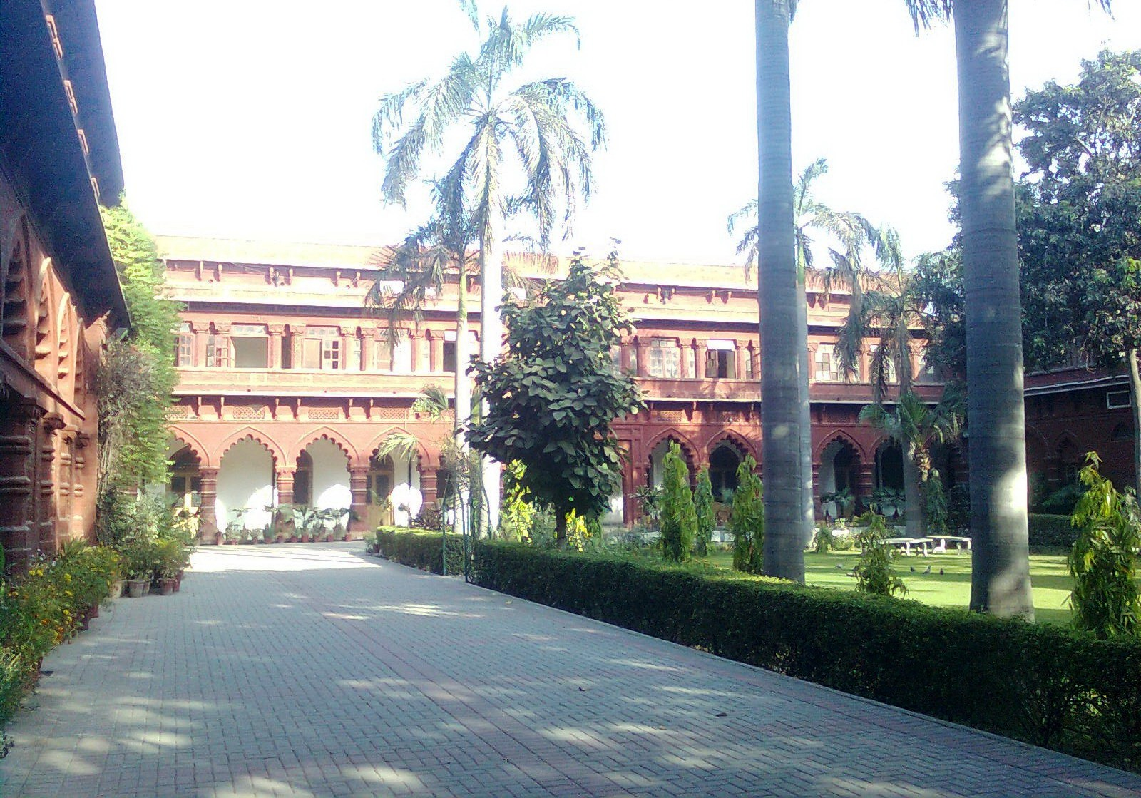 Old campus- Allama Iqbal Campus